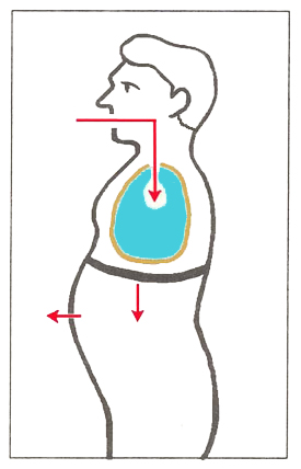 Breath.